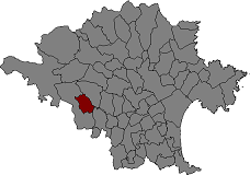 Location of Lladó in Alt Empordà